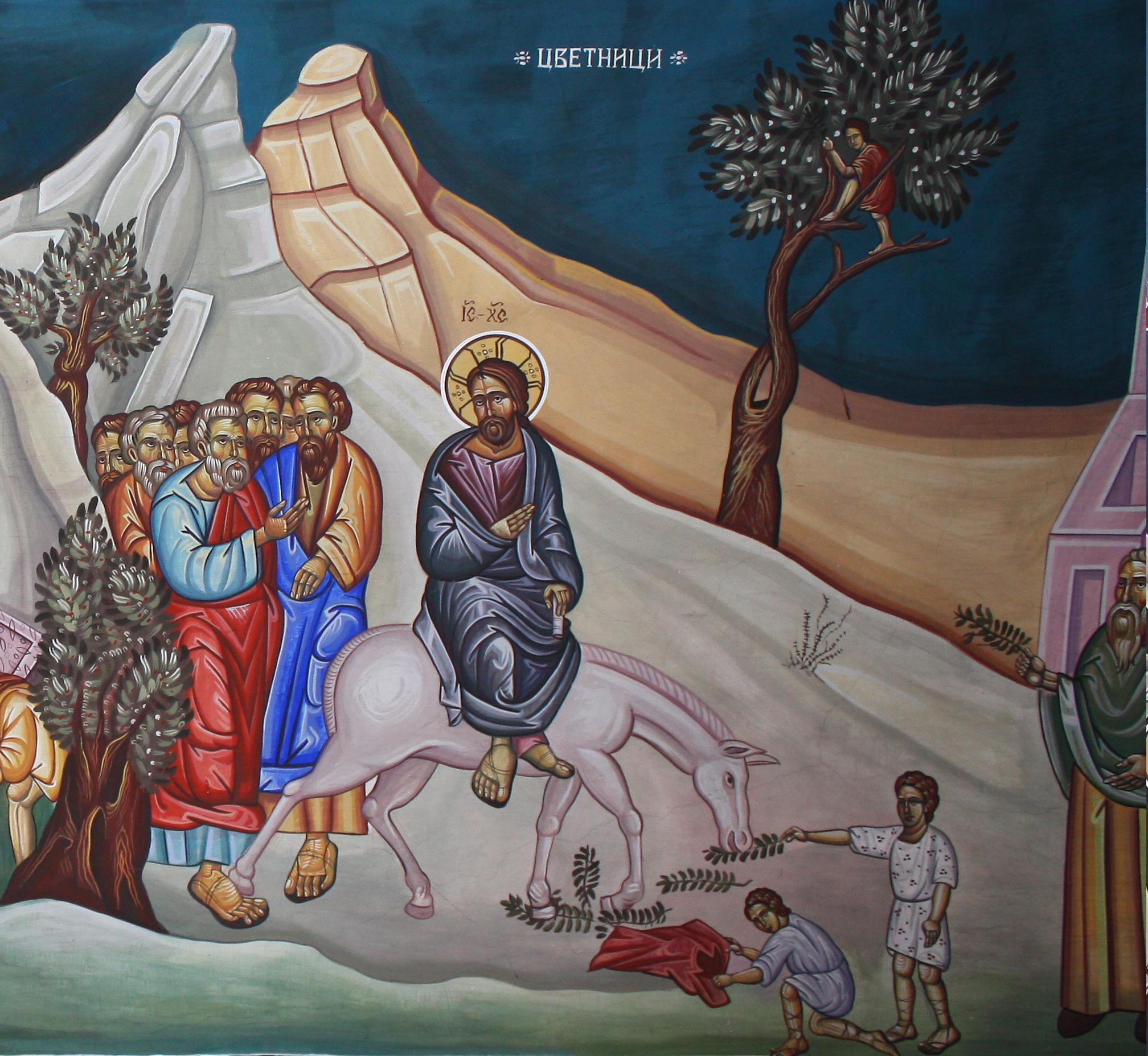 Fresco of Entry into Jerusalem in the St. Elujah Church in Velgošti, Macedonia